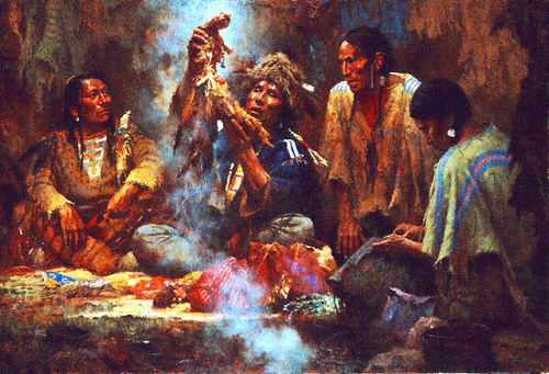 Shamanic Ritual